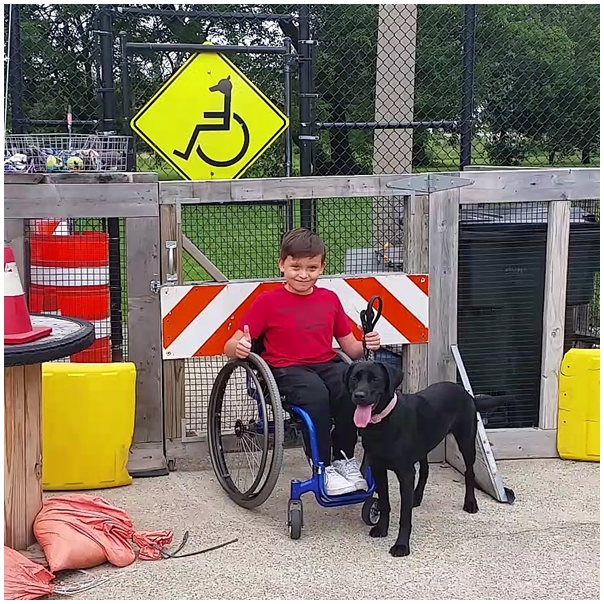 Wheelchair and stroller access, one of three entrances/exits.